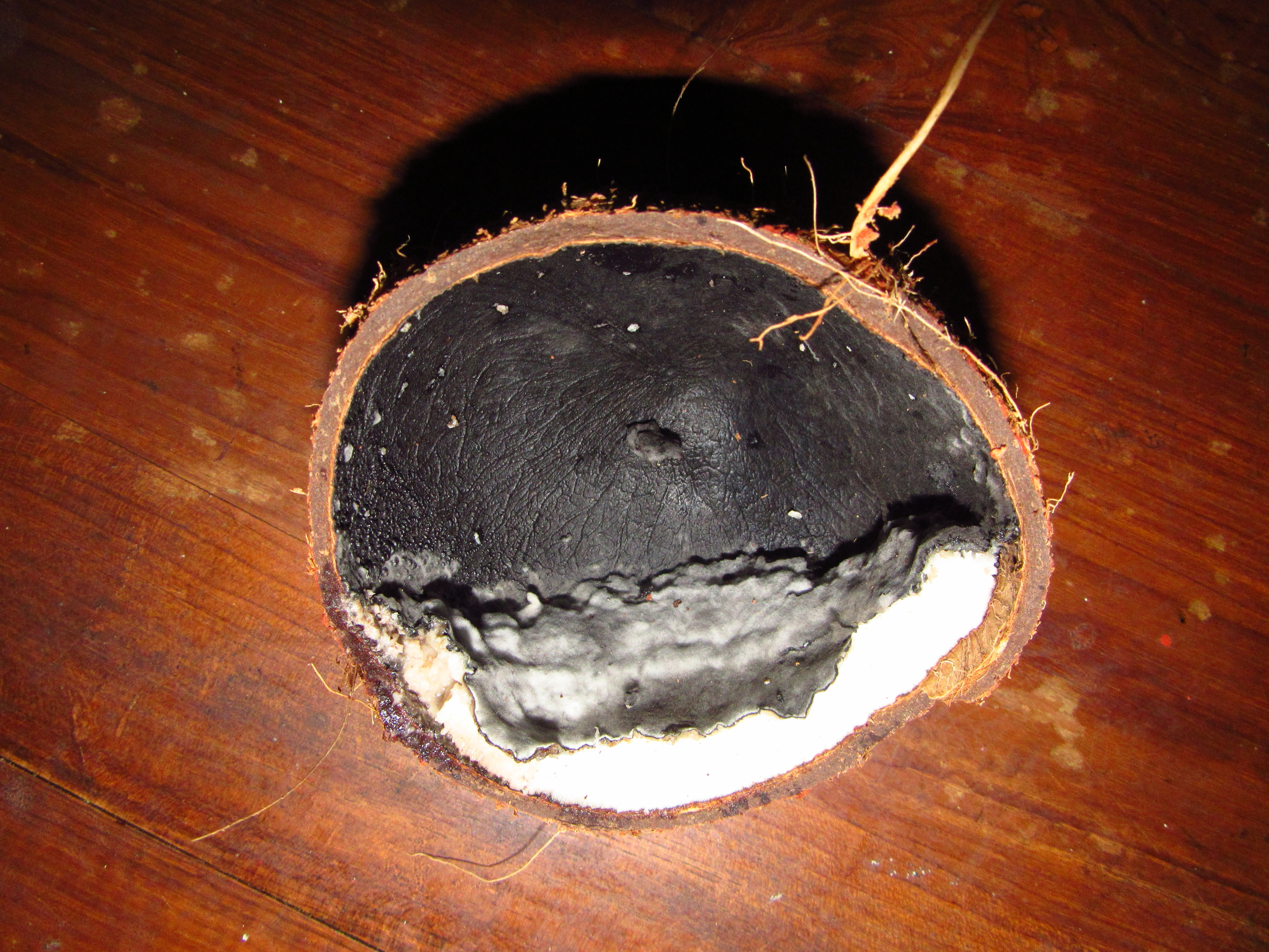 One of many coconuts from a supposedly infected coconut palm in Pannipitiya, Sri Lanka. Note that the majority of meat is missing fresh out of the tree. Some of the other coconuts are with completely empty shells; no traces of coconut meat, fungus, or any residues.